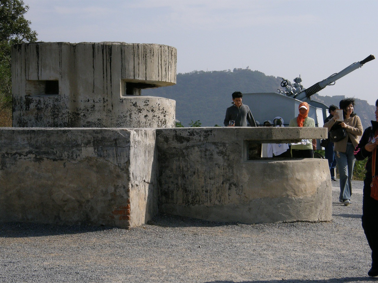 Lüshun city or Lüshunkou or (literally) Lüshun Port (simplified